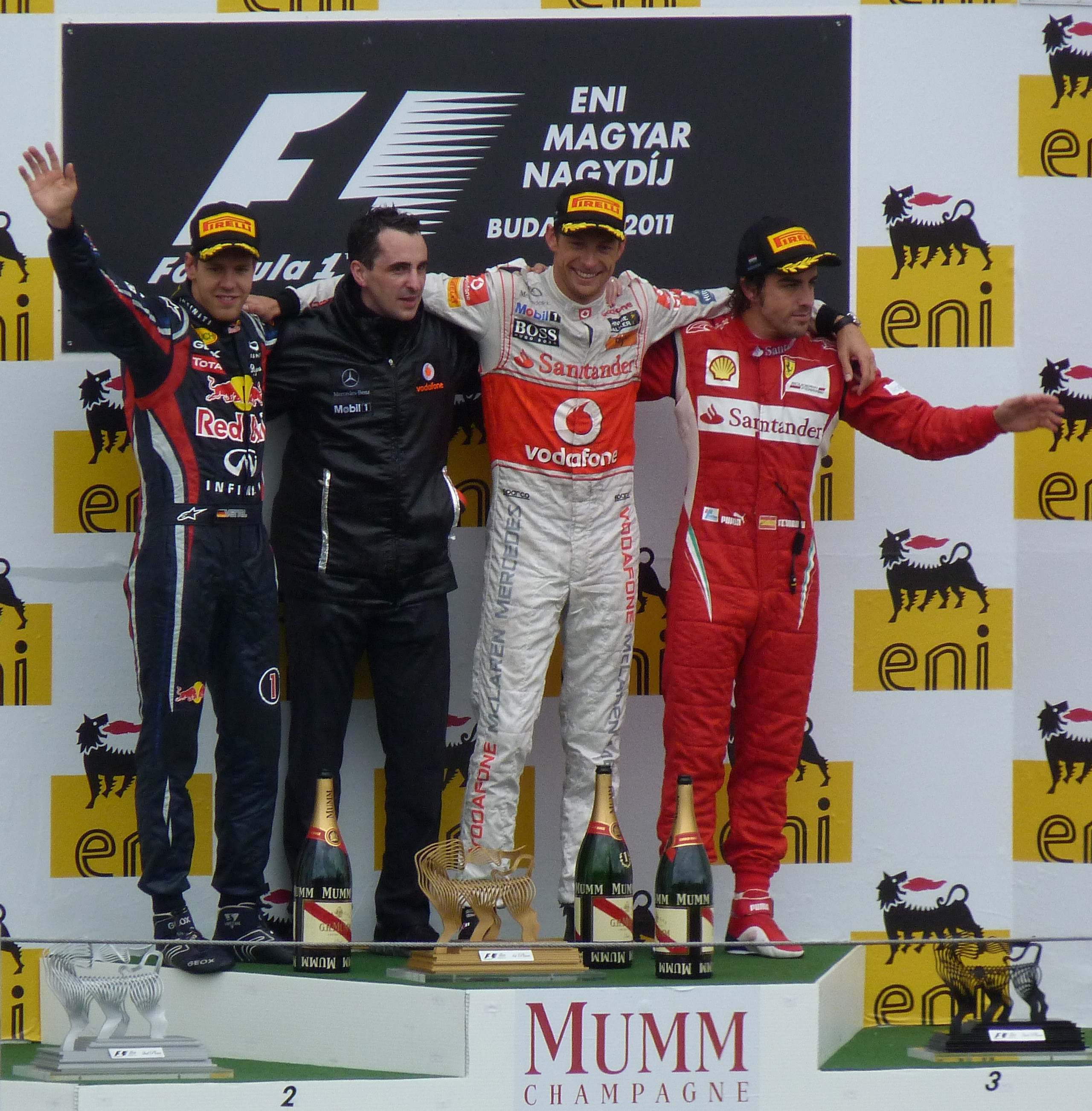 Live on the 31 st of July, 2011. Hungaroring, Mogyoród, Hungary. The 26 th Formula 1 Hungarian Grand Prix started at 2 pm. Schmitt Pál, President of Hungary. Budapest has always been special place for Jenson Button: it was here that he took his first Grand Prix win five years ago - and it is here that he has taken victory in his 200th Grand Prix. Red Bull's Sebastian Vettel stretched his commanding lead in the championship with a second-place finish in wet conditions Sunday.